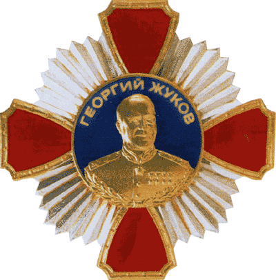 Russian Federation. Badge of Order of Zhukov (transparent background)